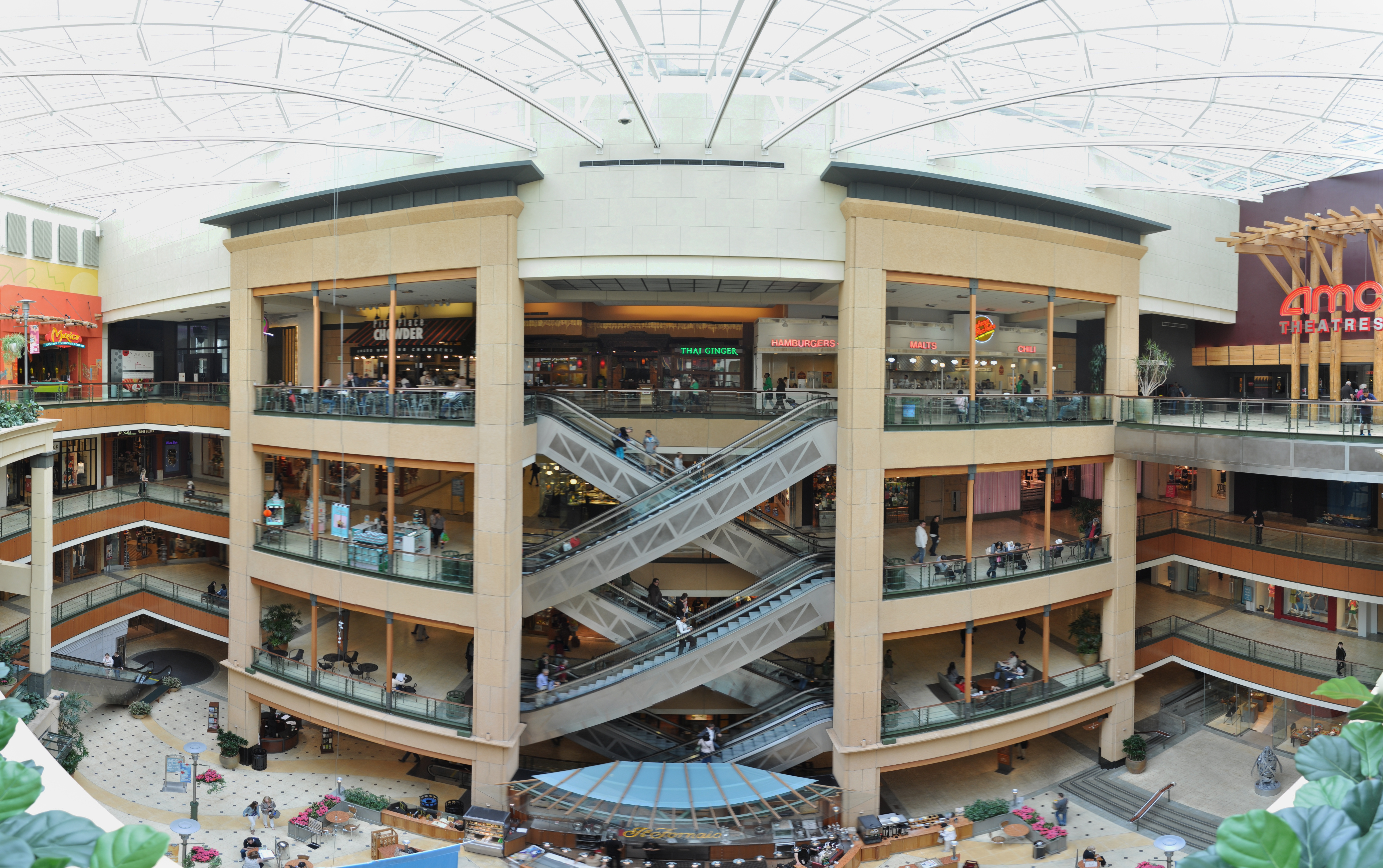 Panoramic view of the interior of Pacific Place shopping center, Seattle, Washington